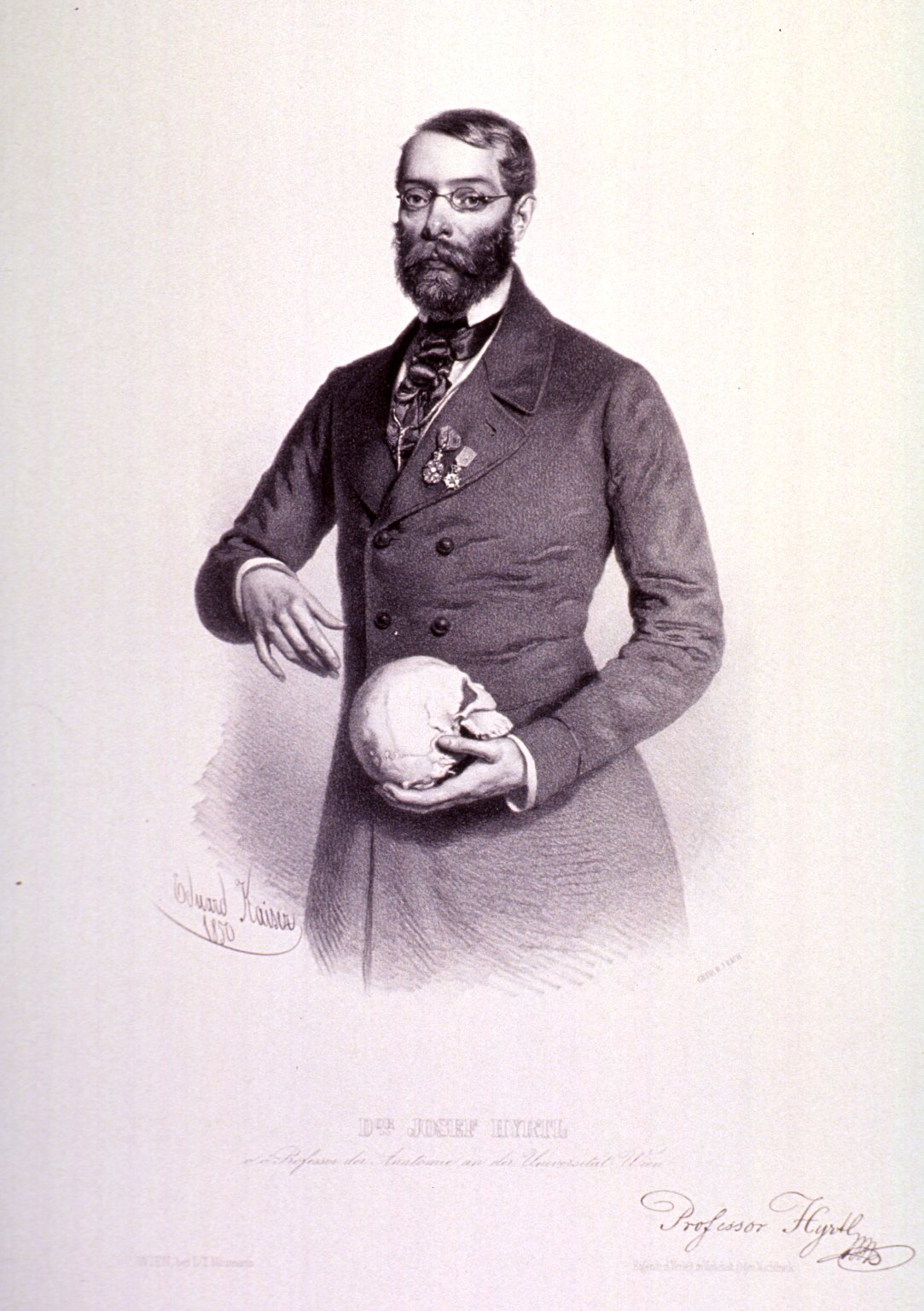 Josef Hyrtl